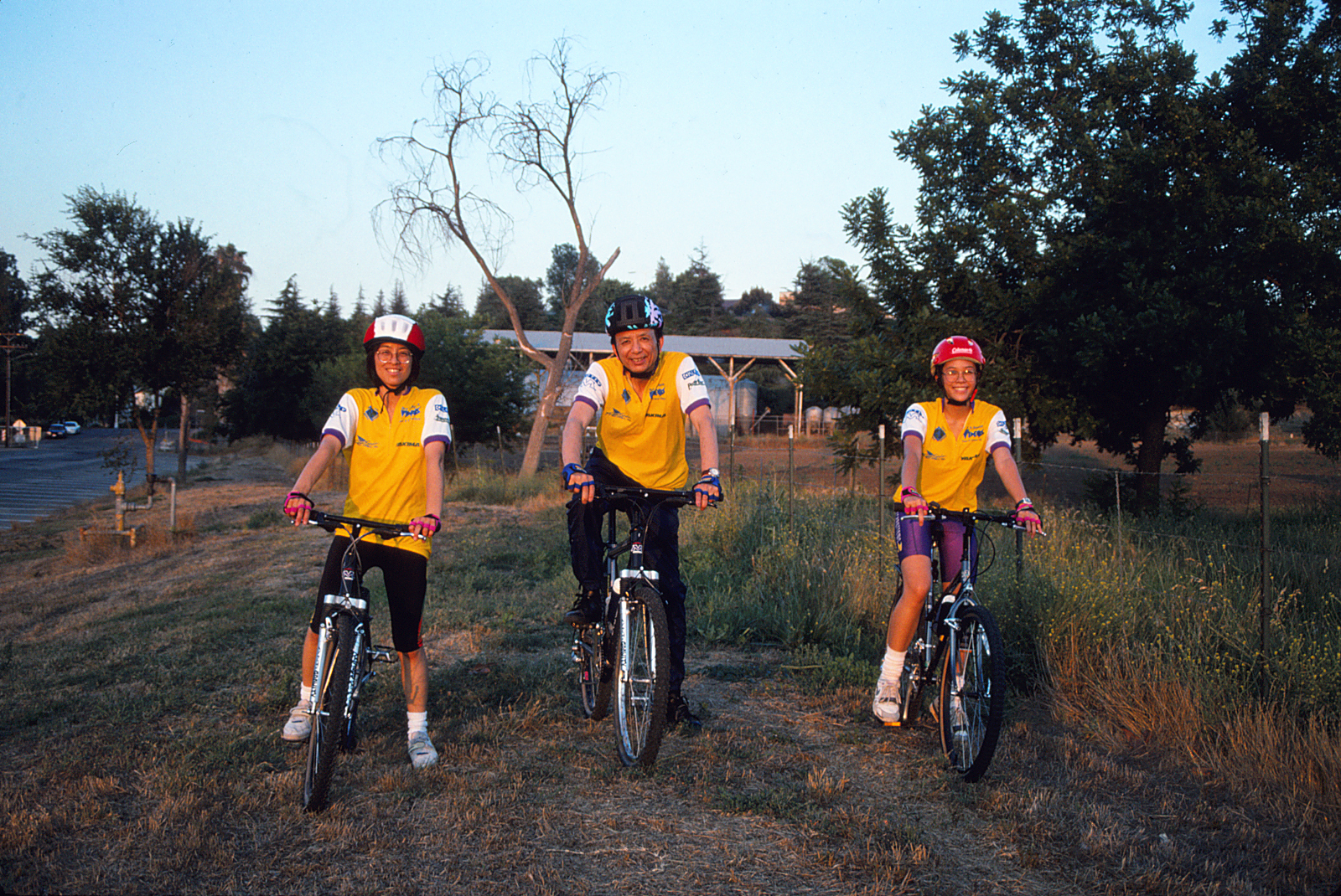 James Hong, his wife Susan and daughter April, in Hollywood, appearing in Full Cycle: A World Odyssey, the around-the-world travel adventures of Mark Schulze and Patty Mooney. Photograph by Patty Mooney of San Diego, California.